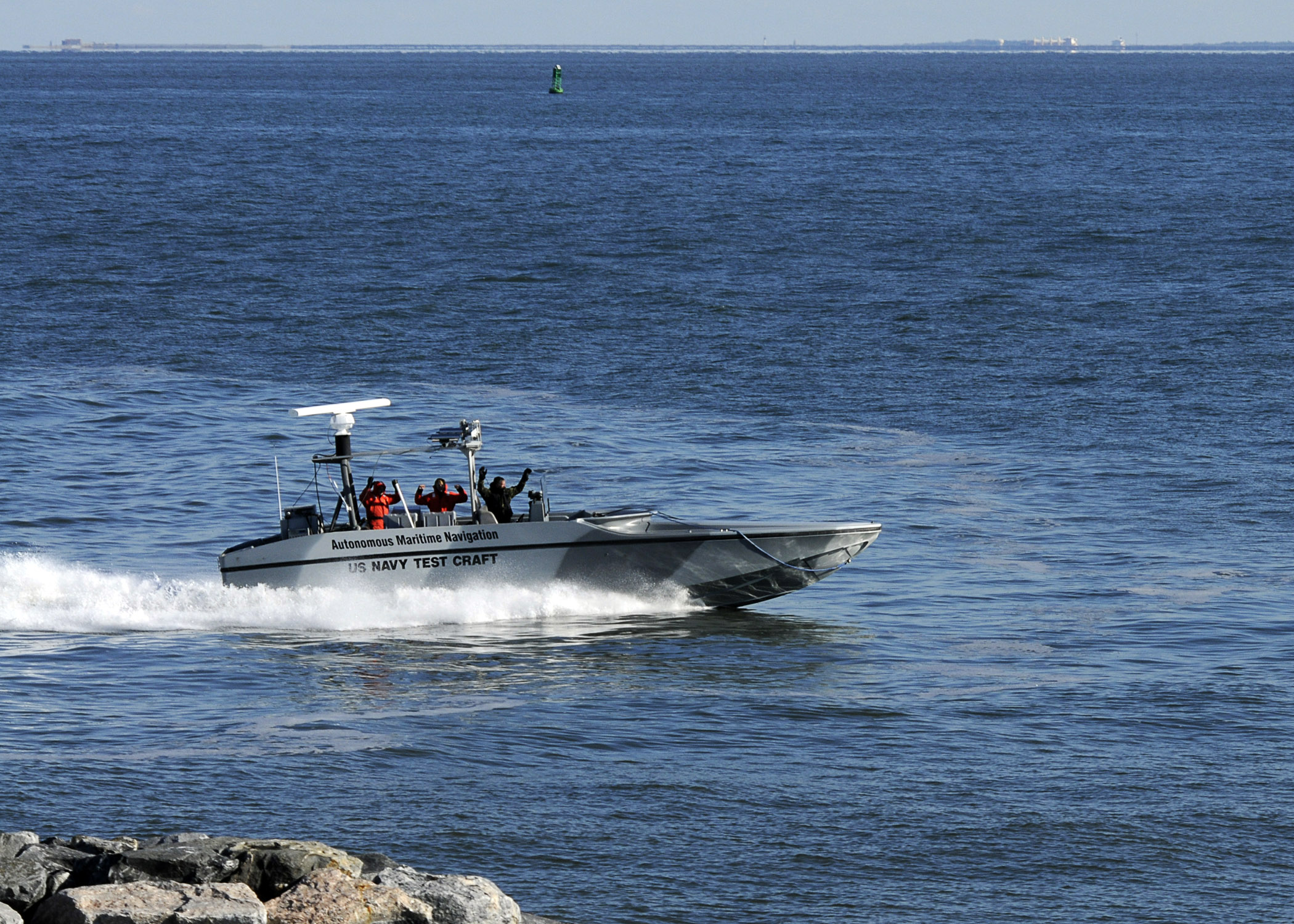 HAMPTON, Va. (Jan. 14, 2009) The Navy, in conjunction with the Spatial Integrated Systems Incorporated, holds a demonstration of a fully autonomous unmanned surface vehicle (USV) at Fort Monroe. A harbor patrol scenario depicts how the USV uses its autonomous maritime navigation systems to patrol and scan designated areas for intruders using onboard sensors and obstacle avoidance software in order to carry out its mission and report back its findings to a command center. (U.S. Navy photo by Mass Communication Specialist Seaman Apprentice Joshua Adam Nuzzo/Released)